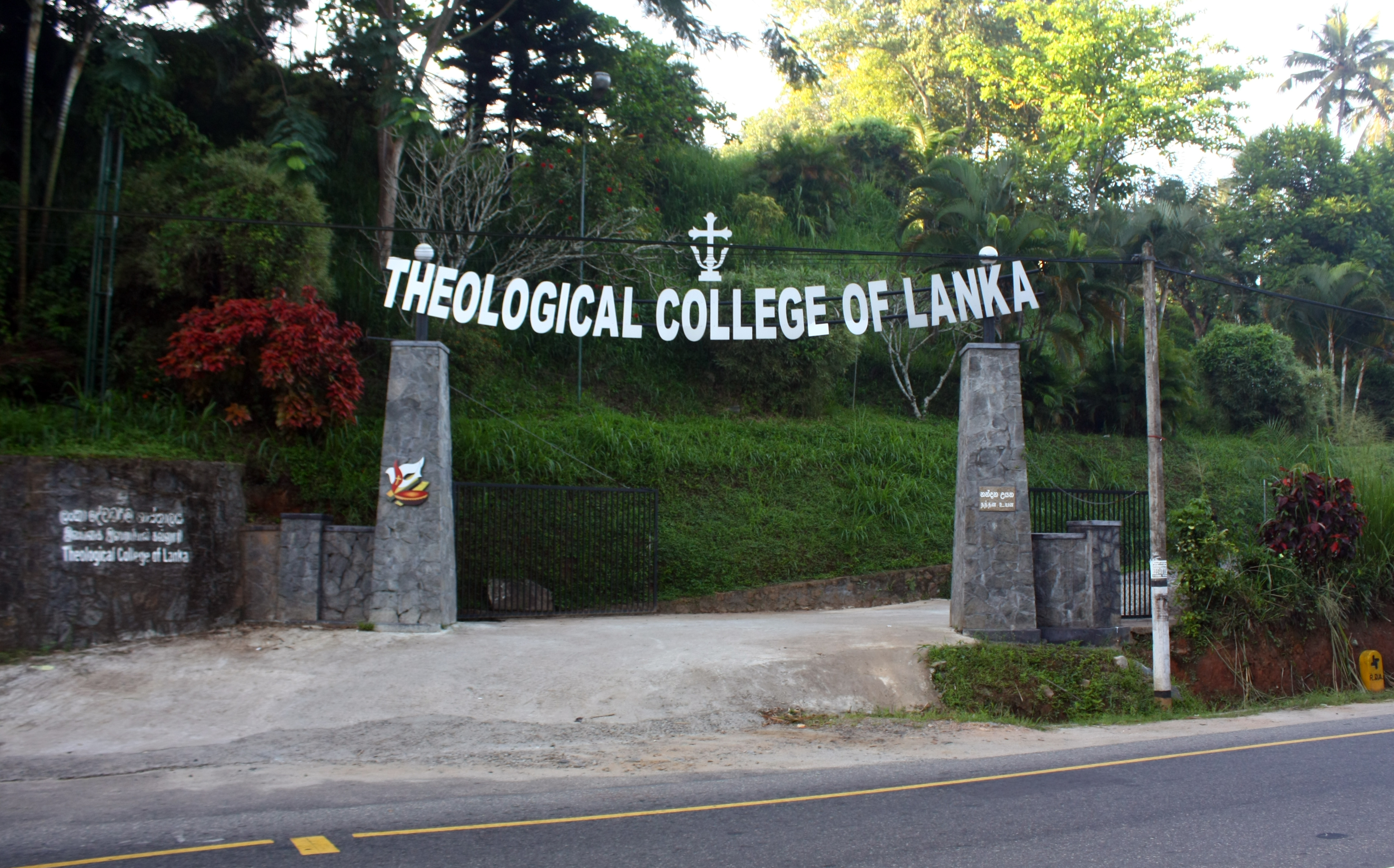 Main gate of Theological College of Lanka (TCL), Pilimatalawa.